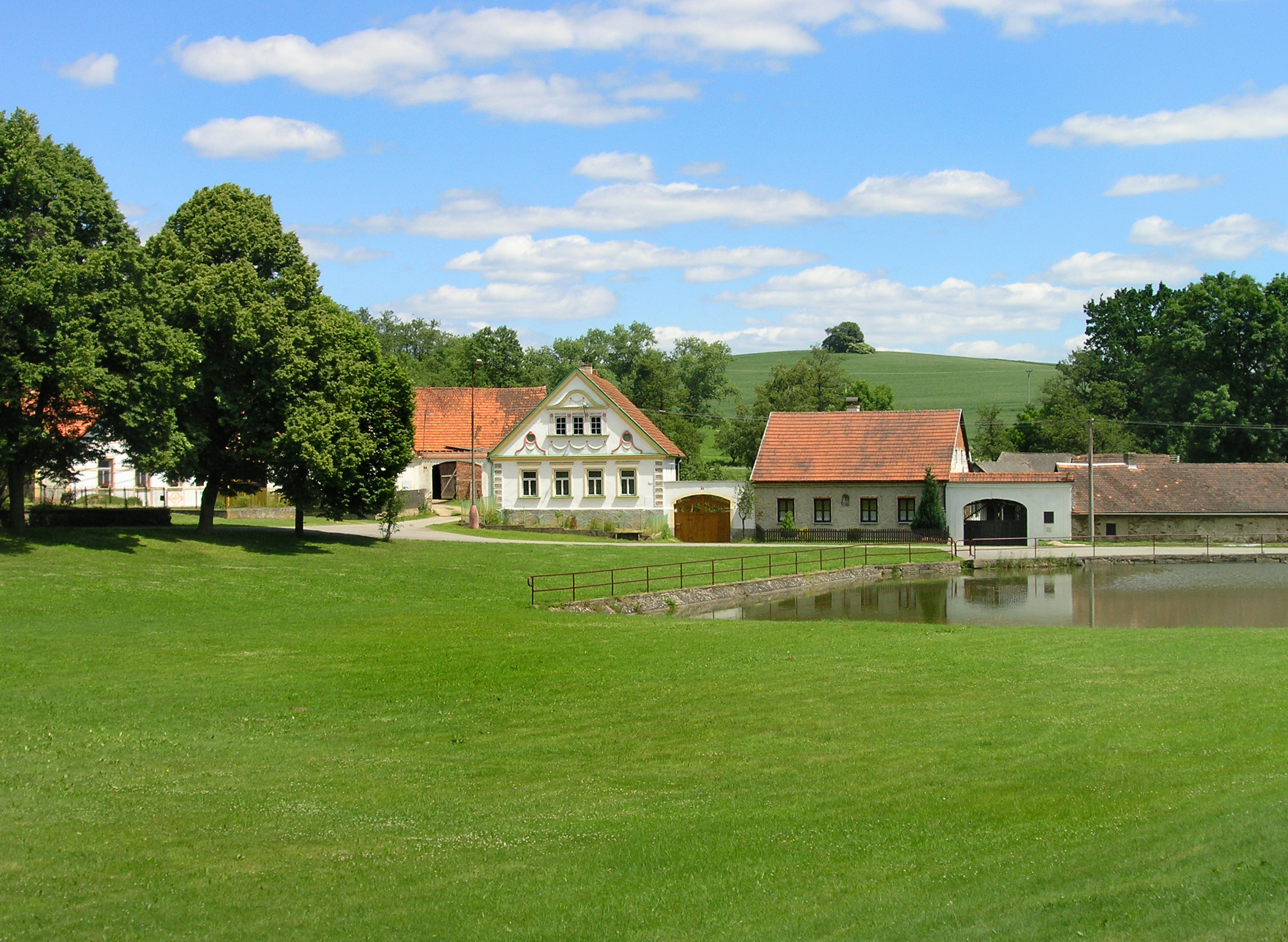 Big common in Chýstovice village, Czech Republic